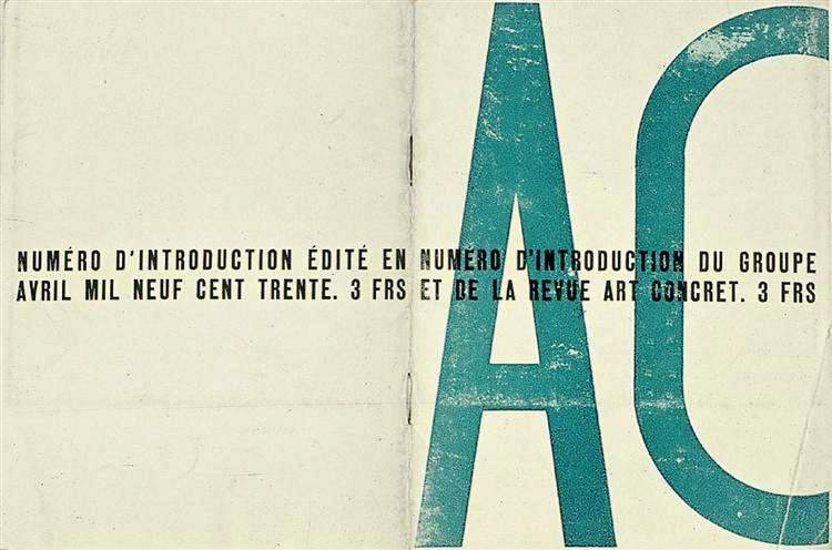 The front and back covers of the art magazine Art Concret, designed by Theo van Doesburg and published in Paris in April 1930